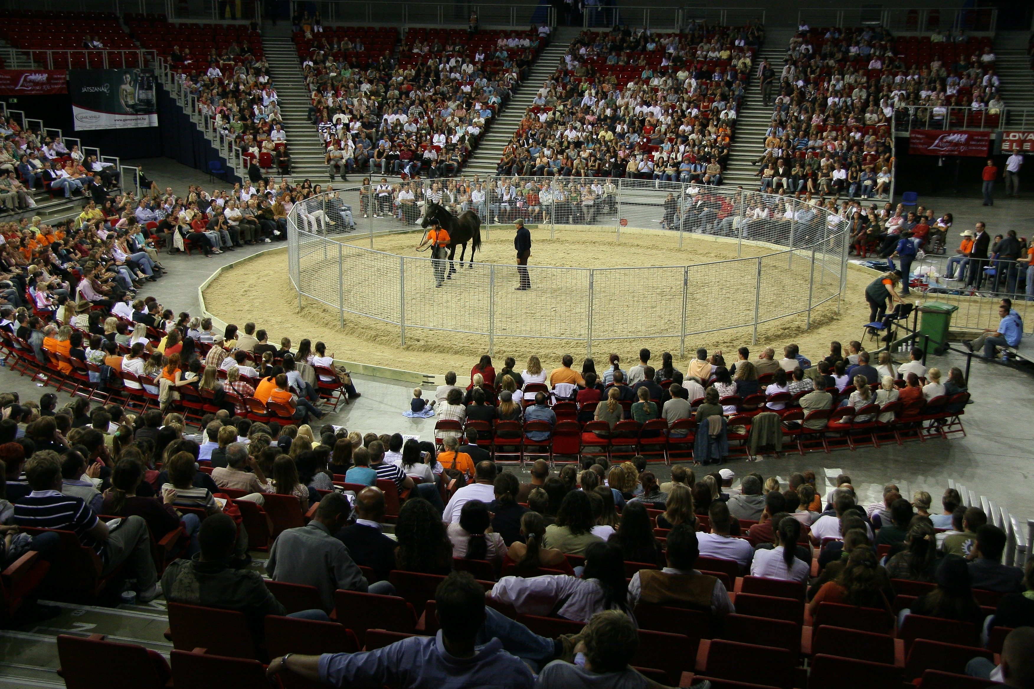 Monty Roberts demonstrates his Join~Up method